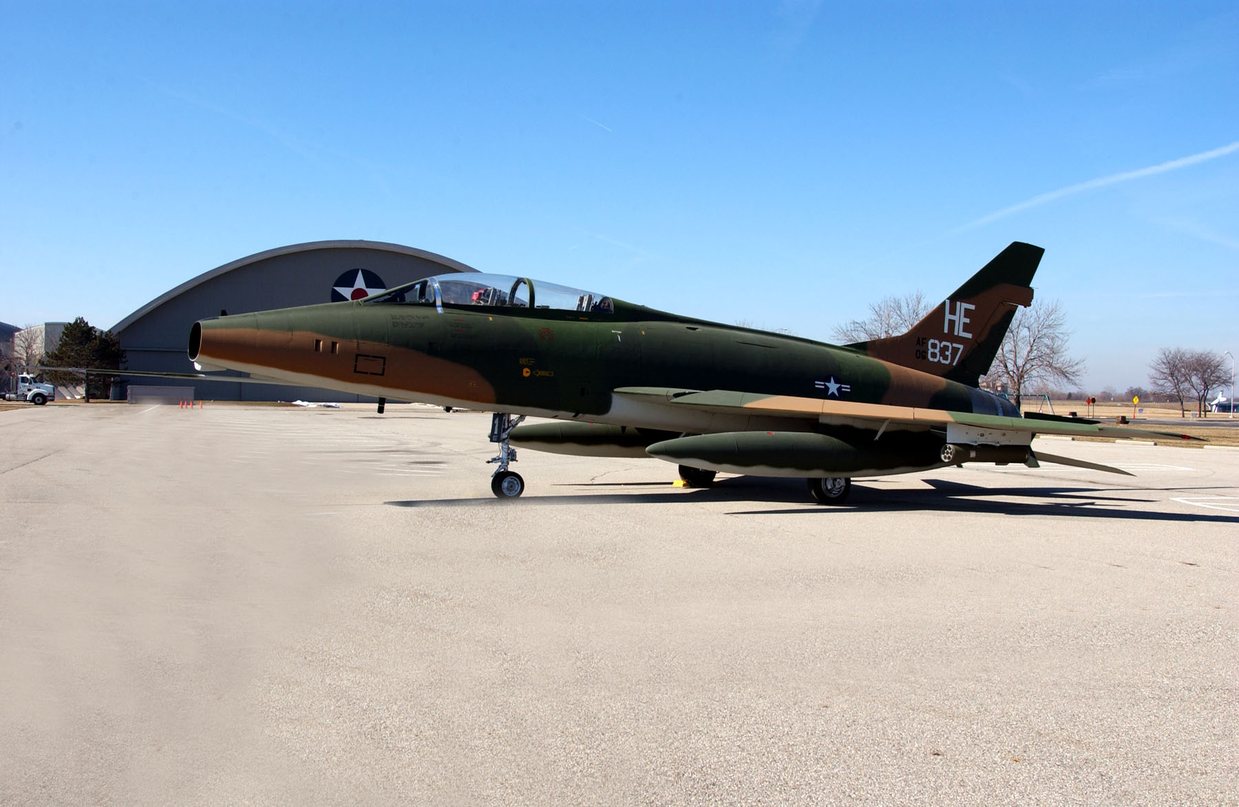 A U.S. Air Force North American F-100F-10-NA Super Sabre (s/n 56-3837) at the National Museum of the United States Air Force at Dayton, Ohio (USA).